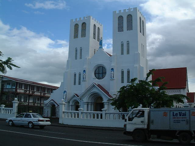 The big Catholic church in Apia and the bottled water truck.